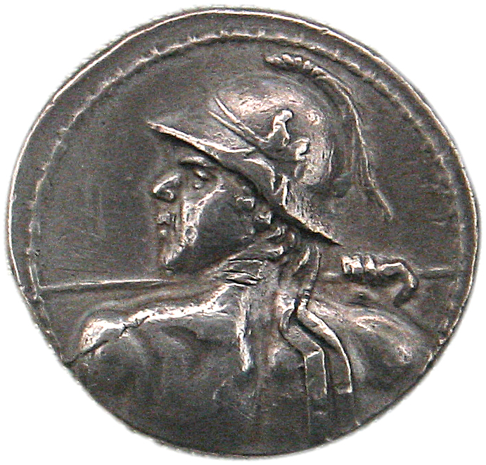 Coin of Eucratides. Cabinet des Medailles. Personal photograph 2006.